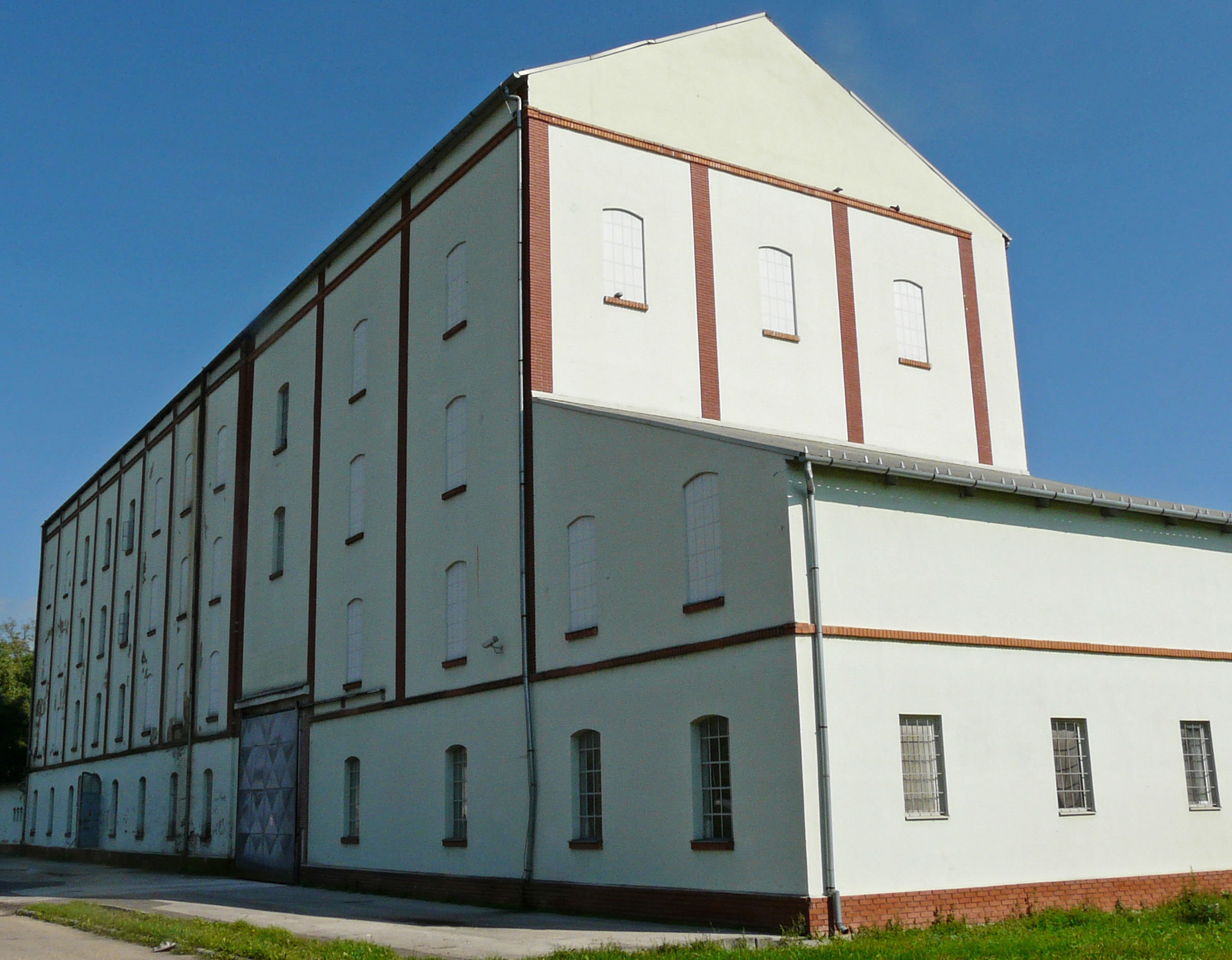 The Mill in Dunaföldvár